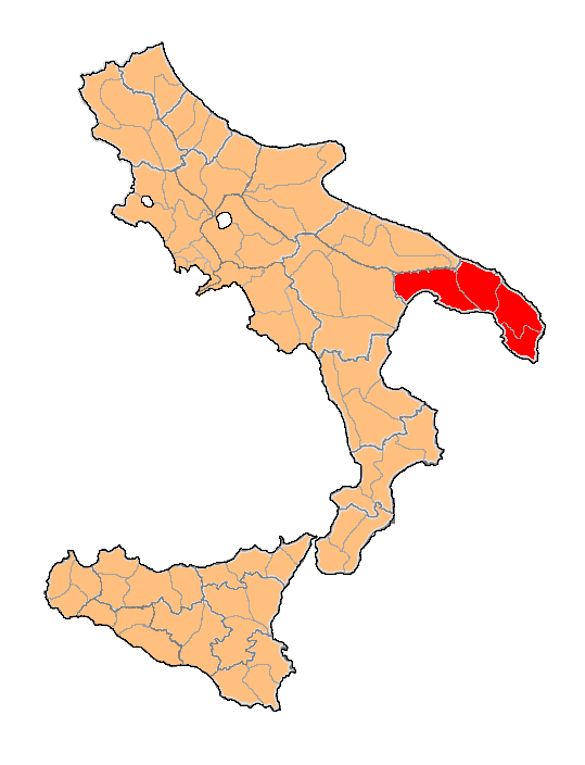 Department of Terra d'Otranto, of Kingdom of the Two Sicilies